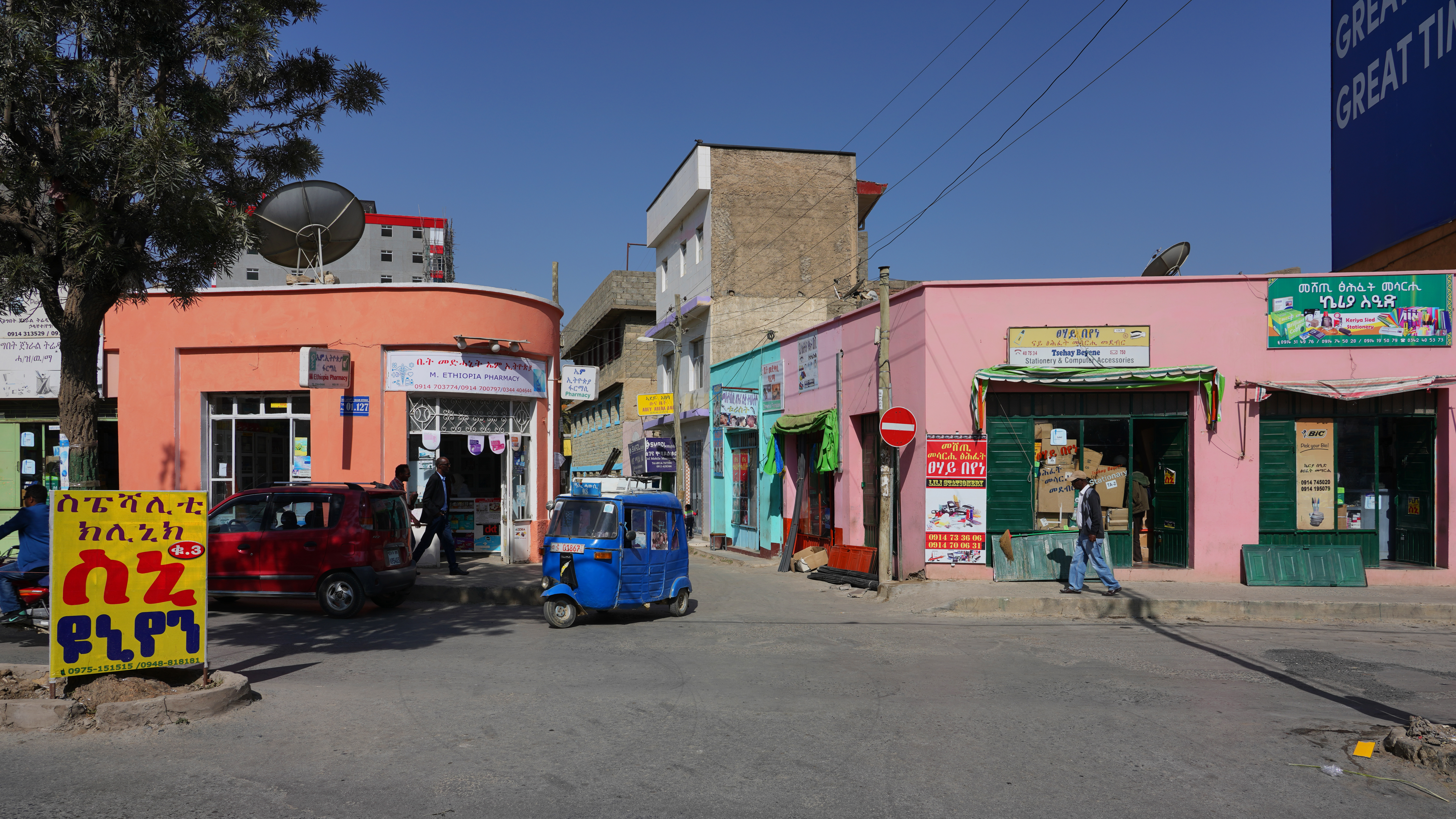 Selam Street in Mekele, Ethiopia